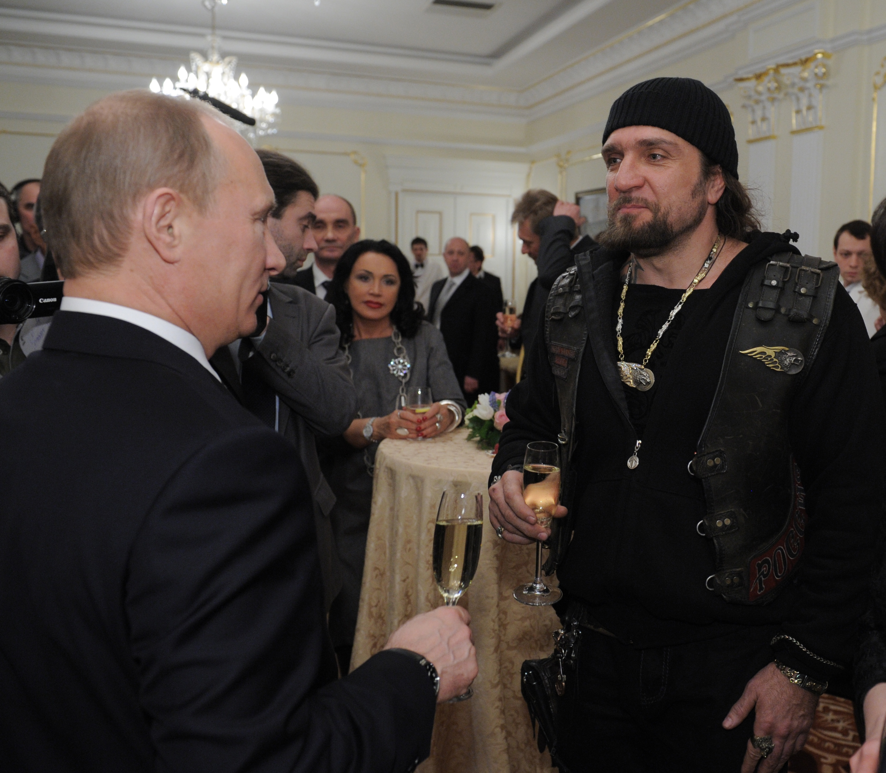 Vladimir Putin and president of the Night Wolves biker club Alexander Zaldostanov